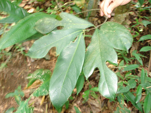 Heterophylly in Artocarpus heterophyllus